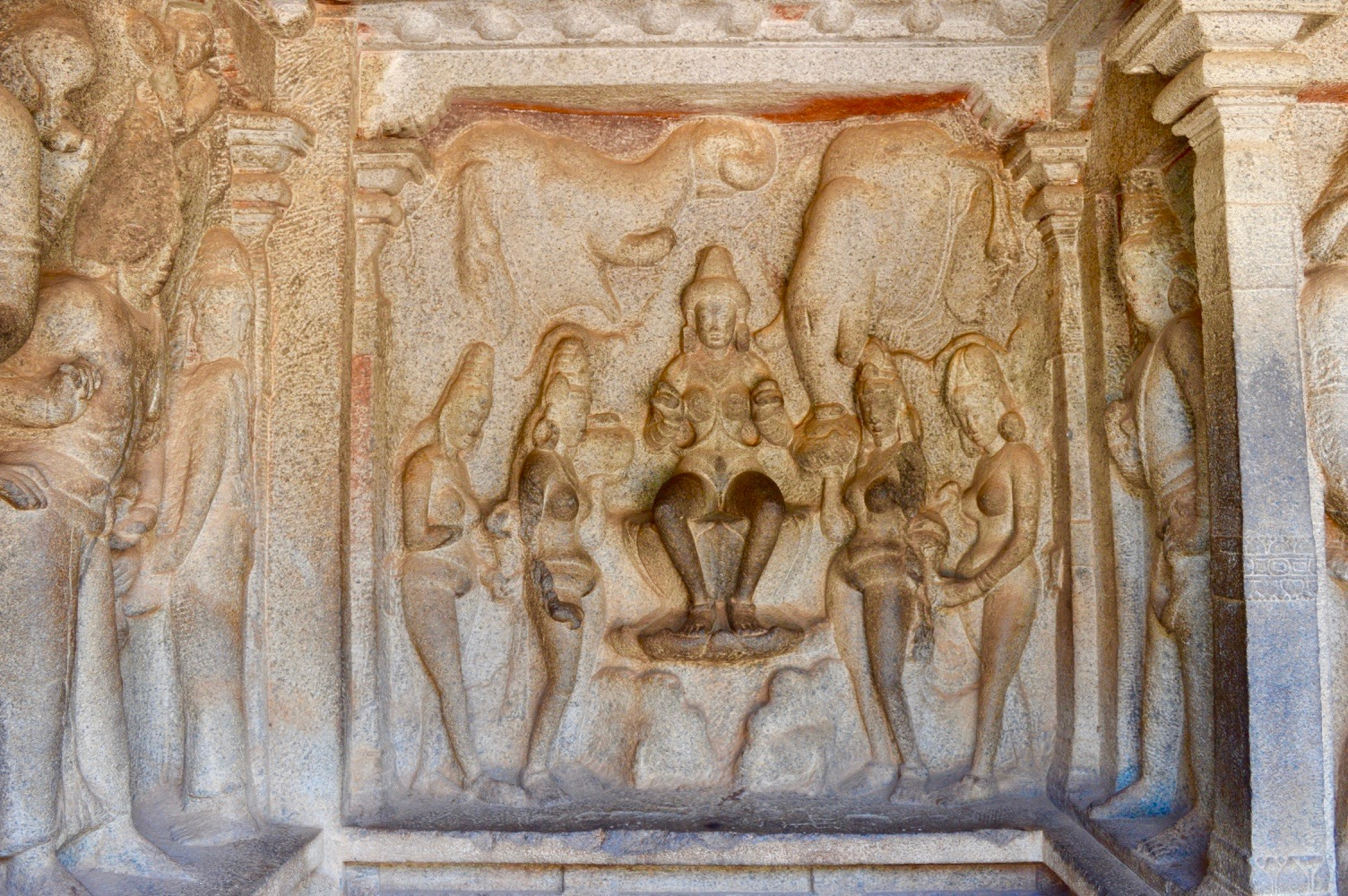 Anothe temple in the ancient city of Mahabalipuram